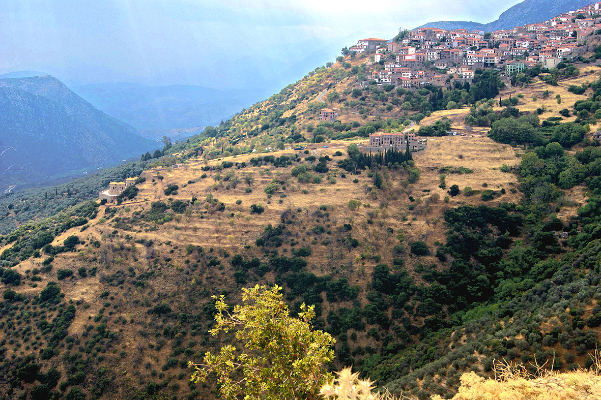 Greece